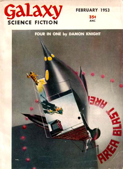 Cover of Galaxy, February 1953